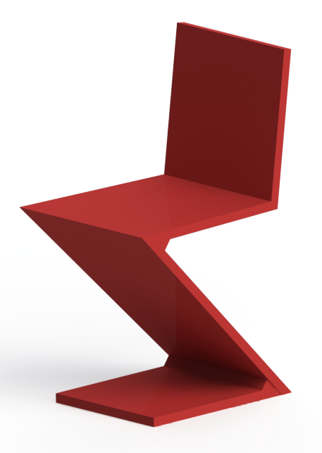 Zig Zag chair modelled and rendered in SolidWorks